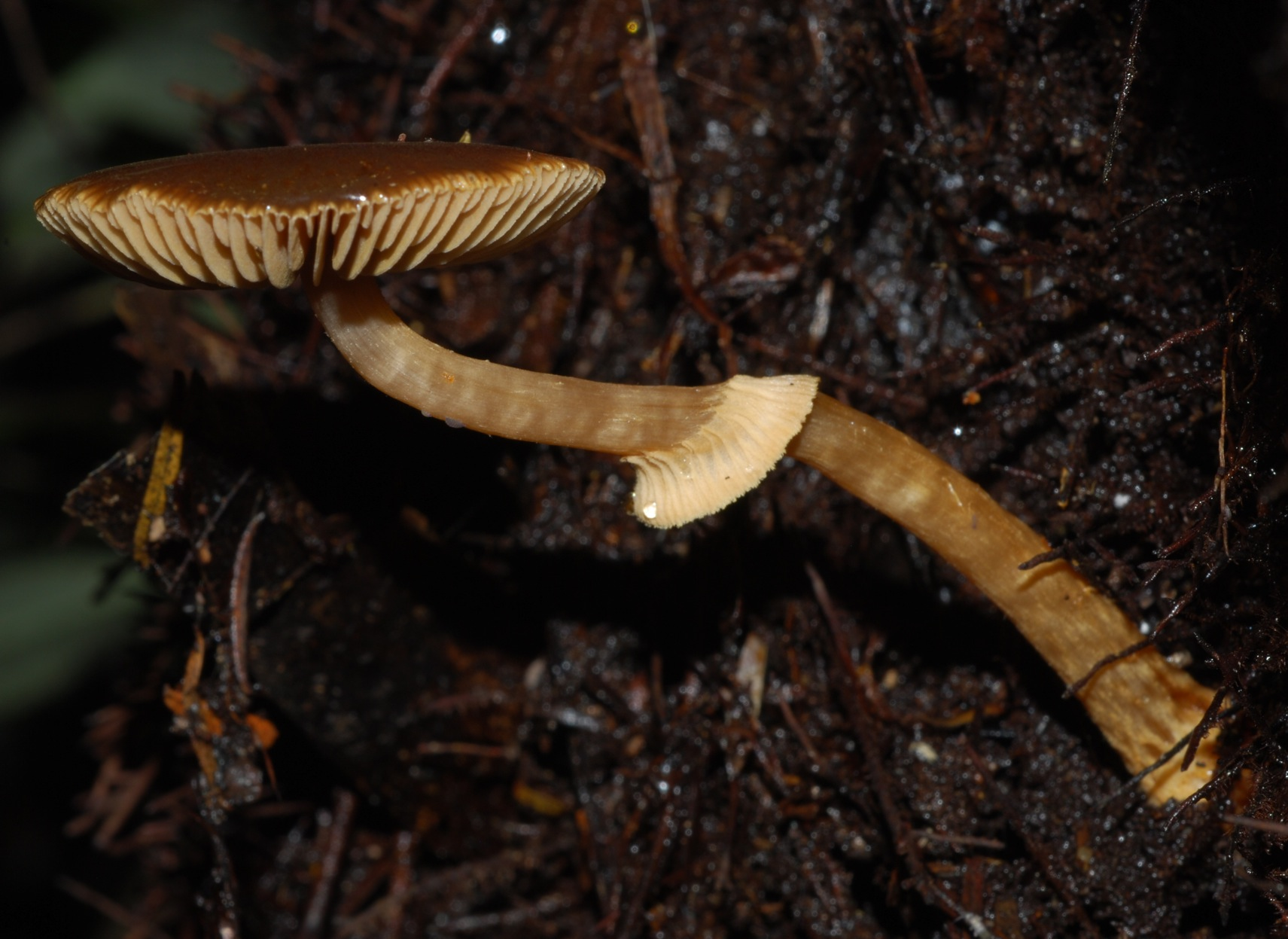 Descolea gunnii ((Massee) E. Horak.) Location: Kaipara harbour, Auckland, New Zealand. Notes: Found fruiting directly from the trunk of a tree fern(Cyathea dealbata), in native New Zealand bush.